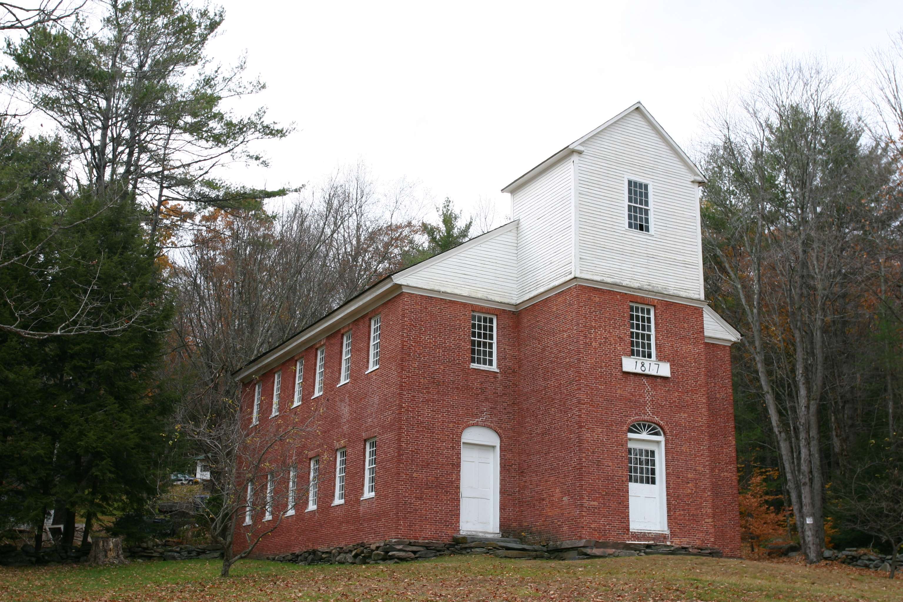 Description: Photograph of Athens, Vermont meeting house Source: Photograph taken by Jared C. Benedict on 31 October 2004. Full resolution original available at: Copyright: © Jared C. Benedict.